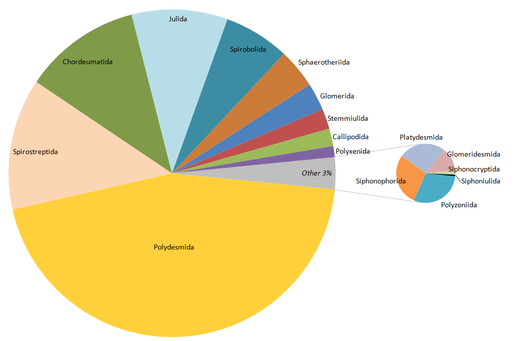 Millipede diversity by order. Approximate number of species follows order name. Based on Shear, W. (2011), who notes that the numbers are approximate because there is no up-to-date comprehensive listing of genera and species of millipedes. Source data: Shear, W. (2011) Class Diplopoda de Blainville in Gervais, 1844. In: Zhang, Z.-Q. (Ed.) Animal biodiversity: An outline of higher-level classification and survey of taxonomic richness. Zootaxa, 3148, 159–164.